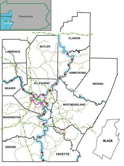 Photo Courtesy of the Port of Pittsburgh Commission showing the vast area of the Pittsburgh porting industry.